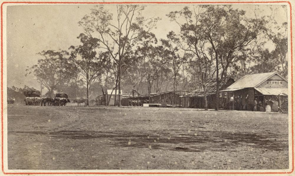 Early view of Comet, ca. 1878.